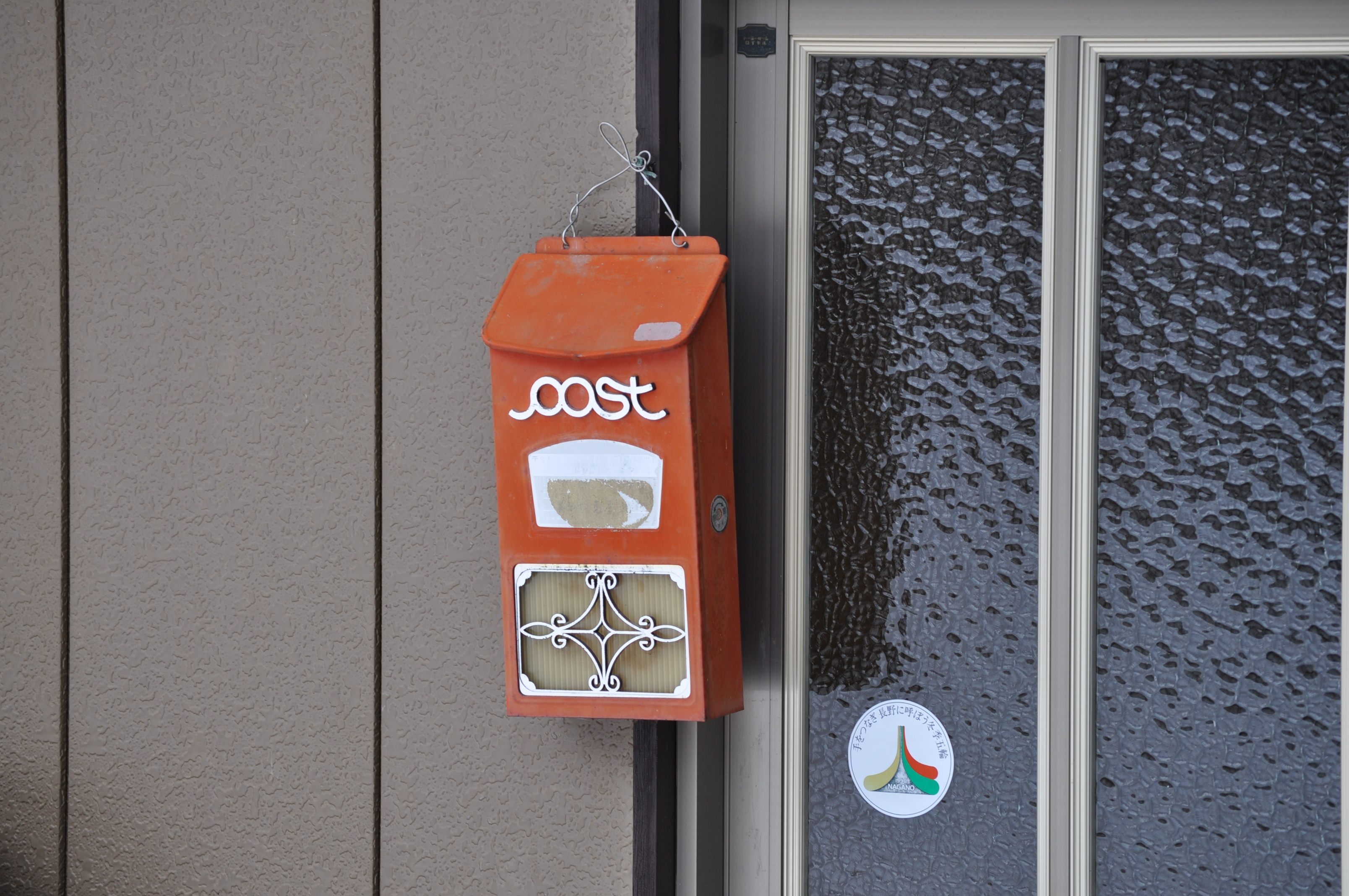 Shibu Onsen, Nagano Prefecture, Japan